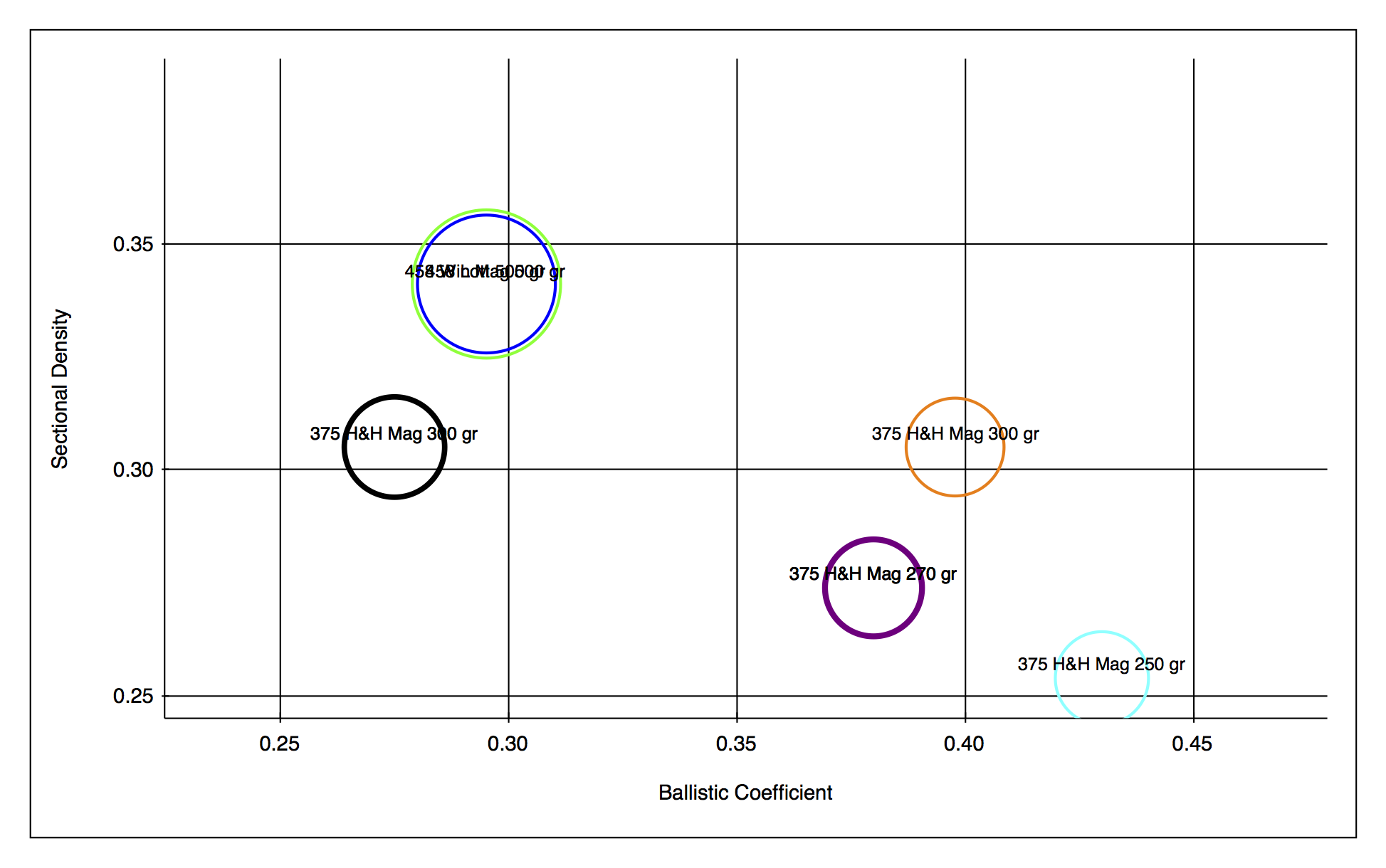 A chart of the Sectional Density vs Ballistic Coefficient comparing various 375 Magnum cartridges with 458 Winchester Magnum and 458 Lott cartridges. The circle sizes are proportional to recoil velocity. Other calibre's for comparison. Created with the CartridgeChooser iPad App.